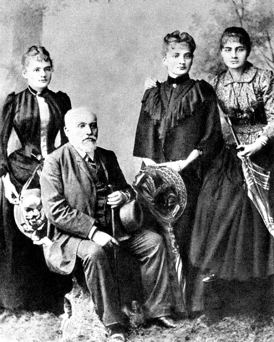 Sklodowski Family: Wladyslaw Skłodowski and his daughters Maria, Bronisława and Helena